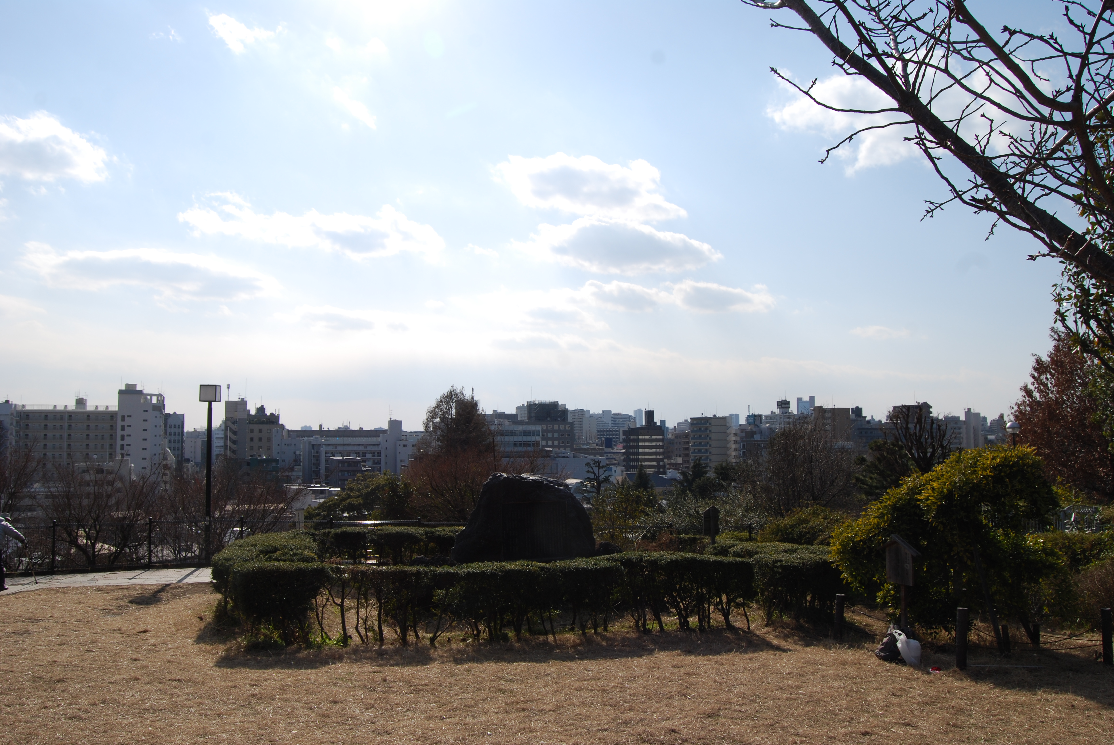 View from Saigoyama park